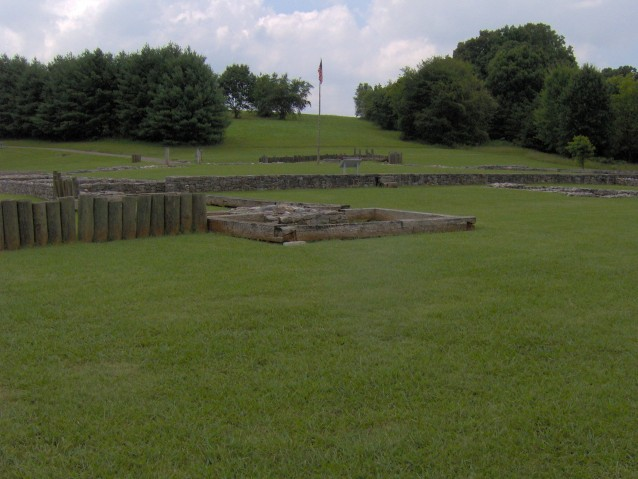 The Tellico Blockhouse site, located at the junction of Nine Mile Creek and the Little Tennessee River (now Tellico Lake). The blockhouse was the headquarters of the Tellico Agent, the official liaison between the U.S. and the Cherokee Nation, between 1794 and 1807. The treaty ending the Chickamauga Wars was signed here by Gov. William Blount, Chief Hanging Maw, and Chief John Watt. An excavation in the late 1960s discovered the foundations of the blockhouse, which were marked with authentic fill. Posts were planted to mark the corners.